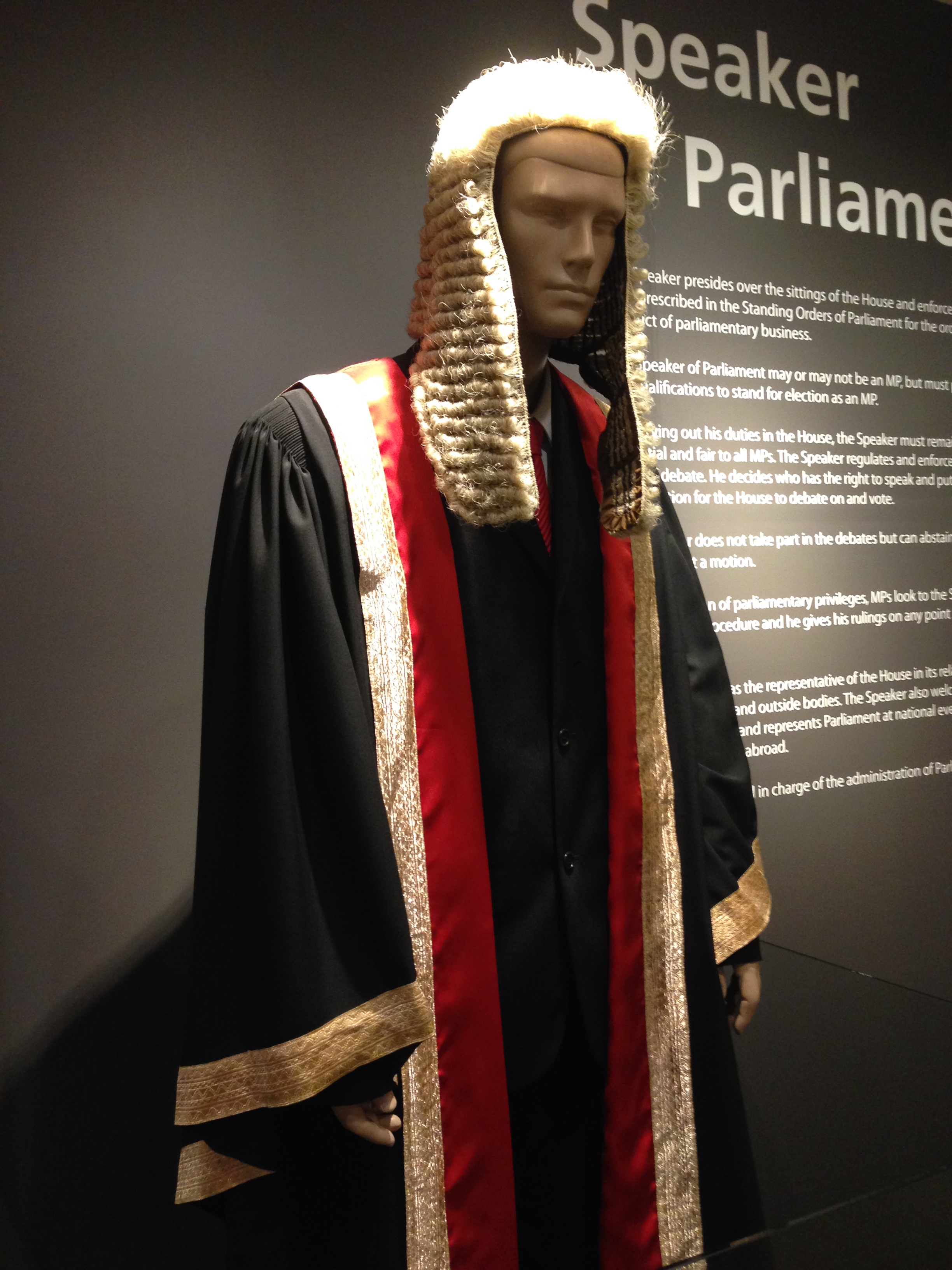 The wig and ceremonial gown of the Speaker of the Parliament of Singapore on display in ParlConnect, the visitor centre of Parliament House, Singapore. The gown is worn by the Speaker during the Opening of Parliament ceremony, but the wearing of the wig was discontinued in 1993.